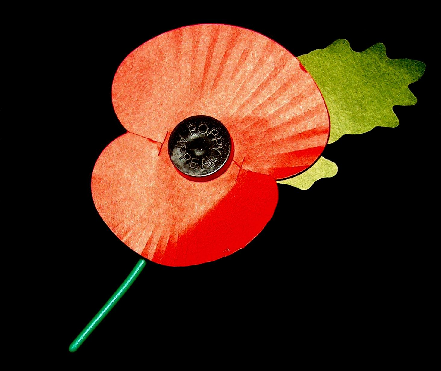 An artificial corn poppy, worn in the United Kingdom from late October to 11 November in support of the The Royal British Legion's Poppy Appeal.